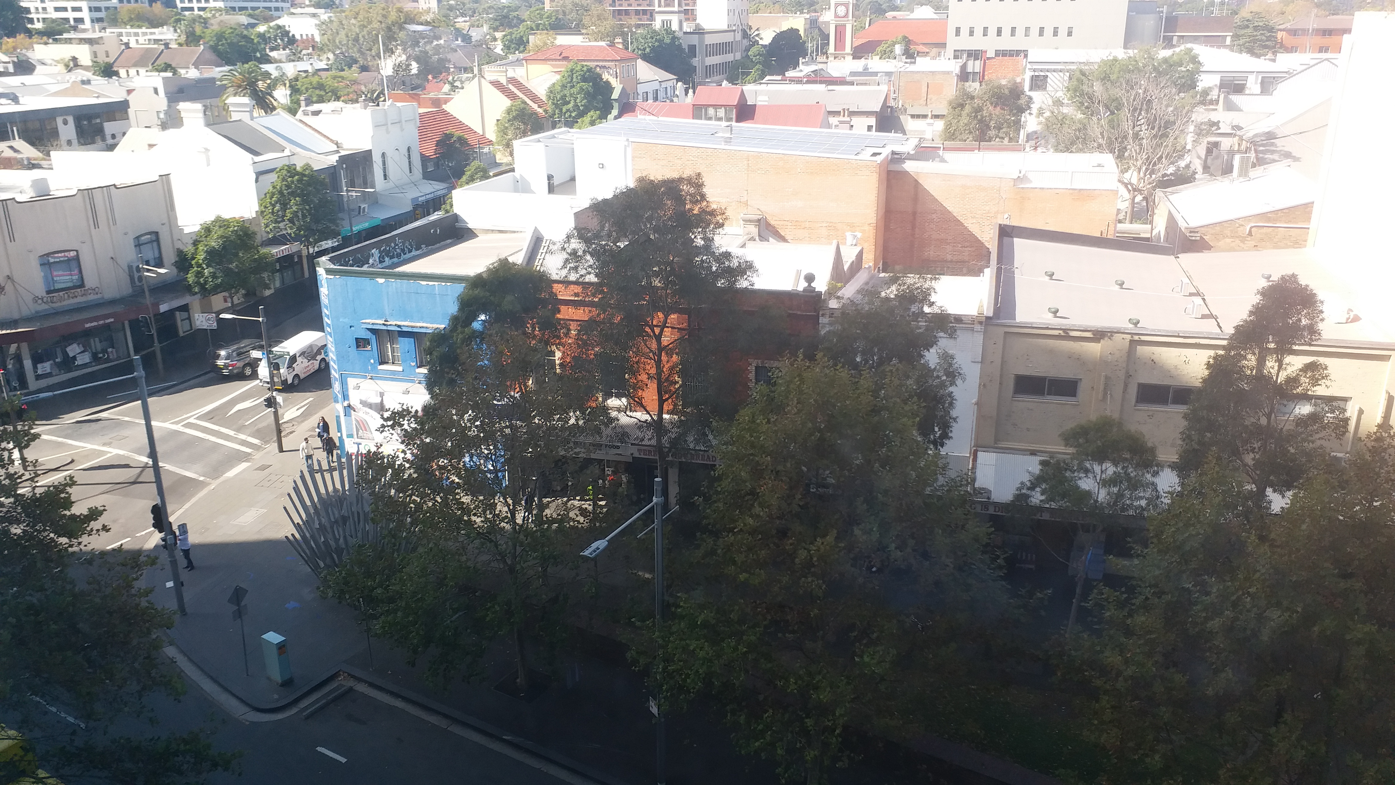 Top view of Redfern Regent Street